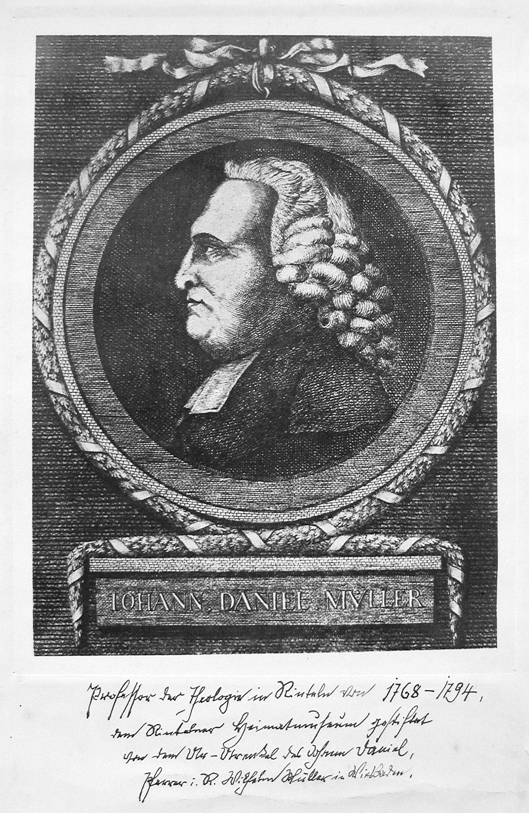 Johann Daniel Müller (1721-1794), German Lutheran Theologian J.D.Müller (Note in German handwriting): Professor der Theologie in Rinteln von 1768-1794, dem Rintelner Heimatmuseum gestiftet von dem Ur-Urenkel des Johann Daniel, Pfarrer i.R. R. Wilhelm Müller in Wiesbaden